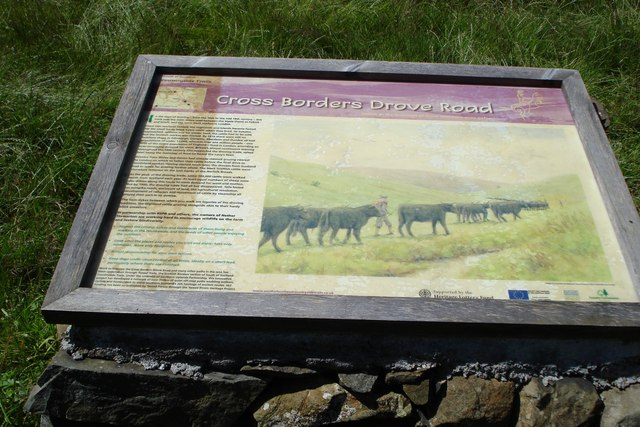 Information Board on Cross Borders Drove Road The Information board at the point where the drove road from West Linton to Peebles meets the Old Post Road from Eddleston to Peebles.